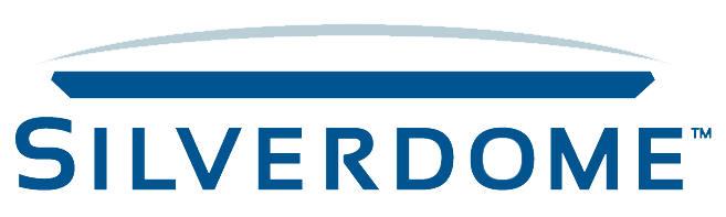 The blue Silverdome logo.